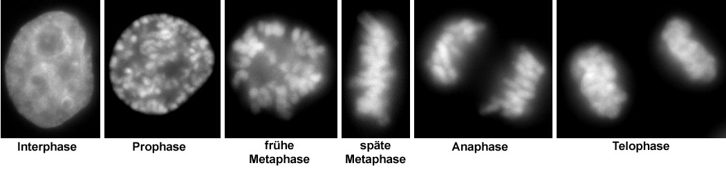 Cell cycle stages as indicated. "frühe" means early and "späte" means late. Human cervix carcinoma cells (HeLa cells) were fixed with formaldehyde, stained for DNA with DAPI and recorded with normal epifluorescence microscopy. All images are at the same scale.